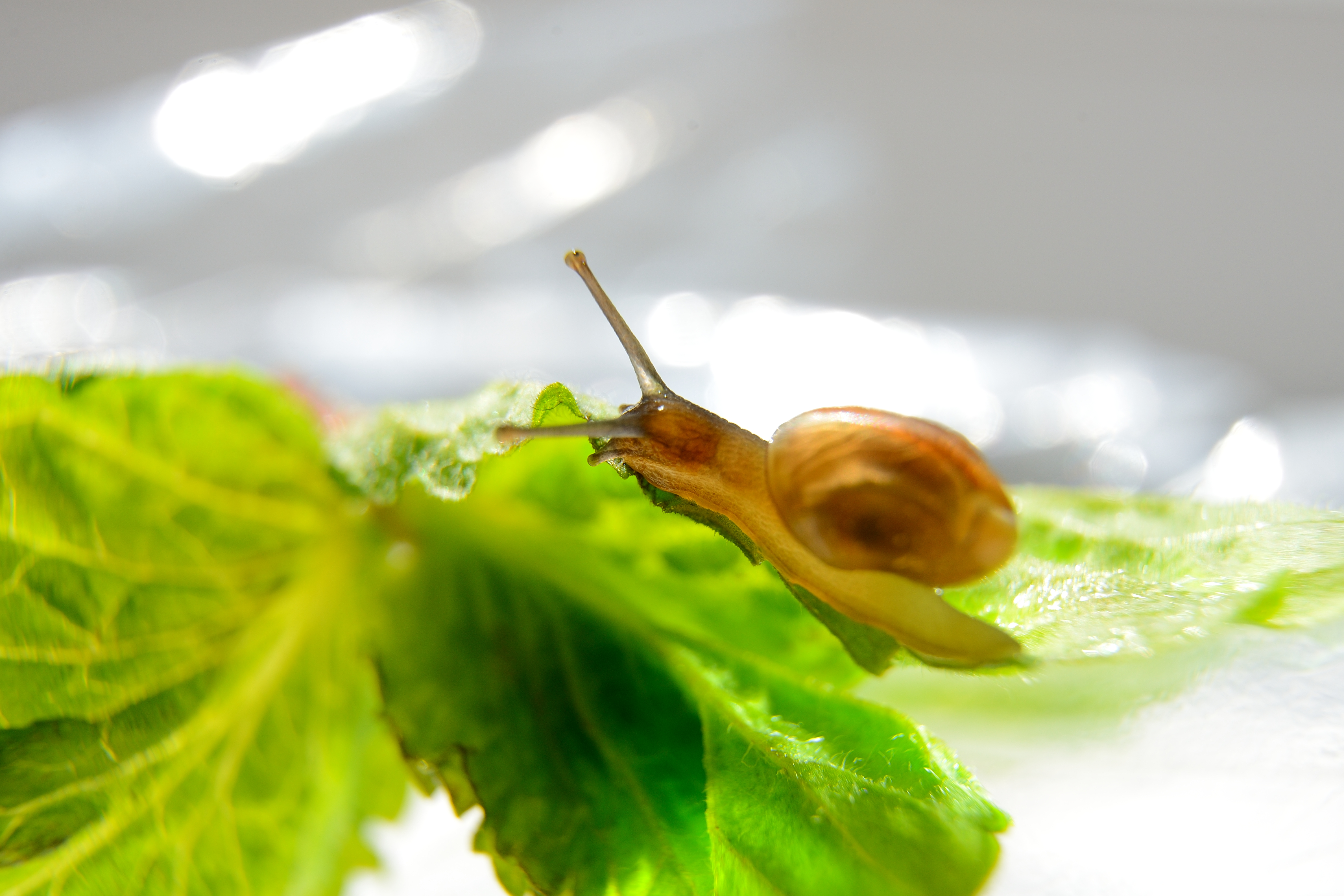 Snail. Stylommatophora